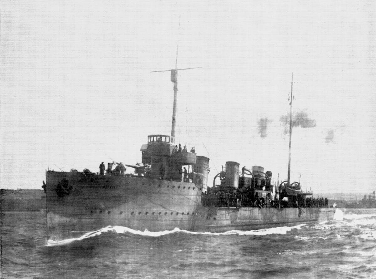 Imperial Russian destroyer Derzkii.